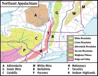 Map of the main mountain ranges of the northeast Appalachians